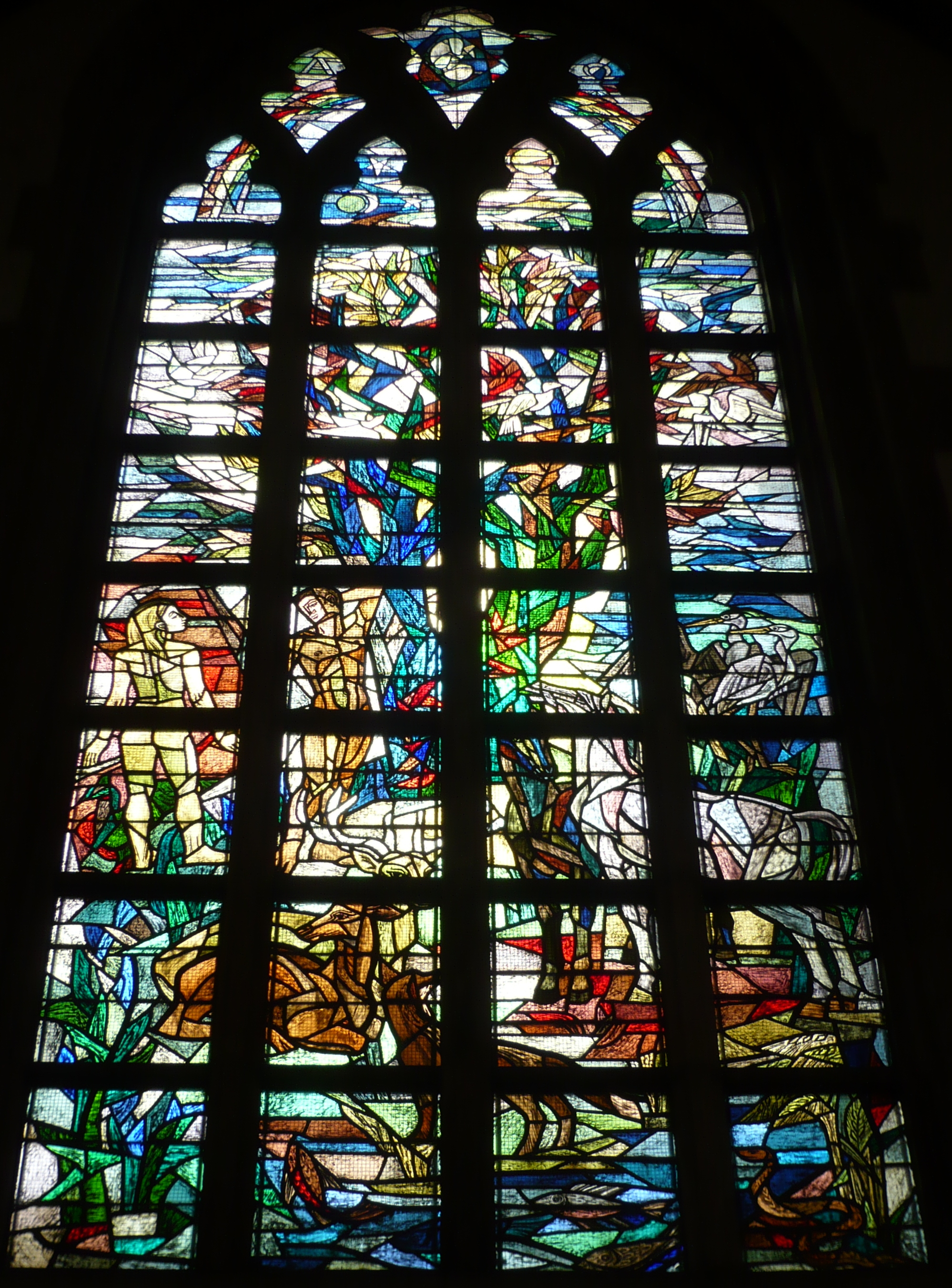 Stained glass window in Grote Kerk, Haarlem. This window was made in 1957, designed by Gunhild Kristensen. It shows Adam and Eve in Paradise and was made to commemorate the union of the Dutch Reformed and Reformed Protestant faiths that had occurred a few years before that.